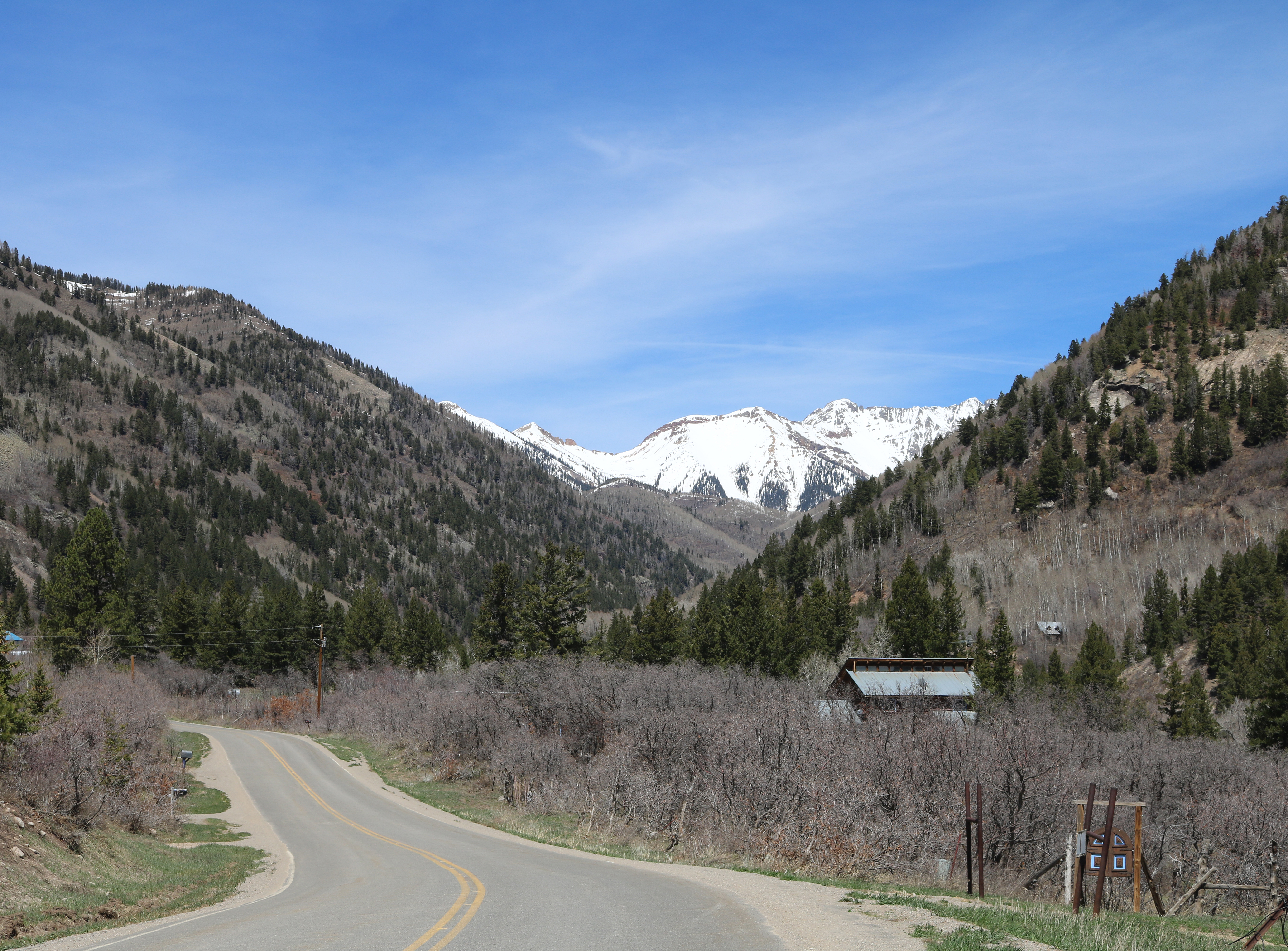 Mayday, Colorado, an unincorporated community in La Plata County, Colorado. The view is along La Plata County Road 124.